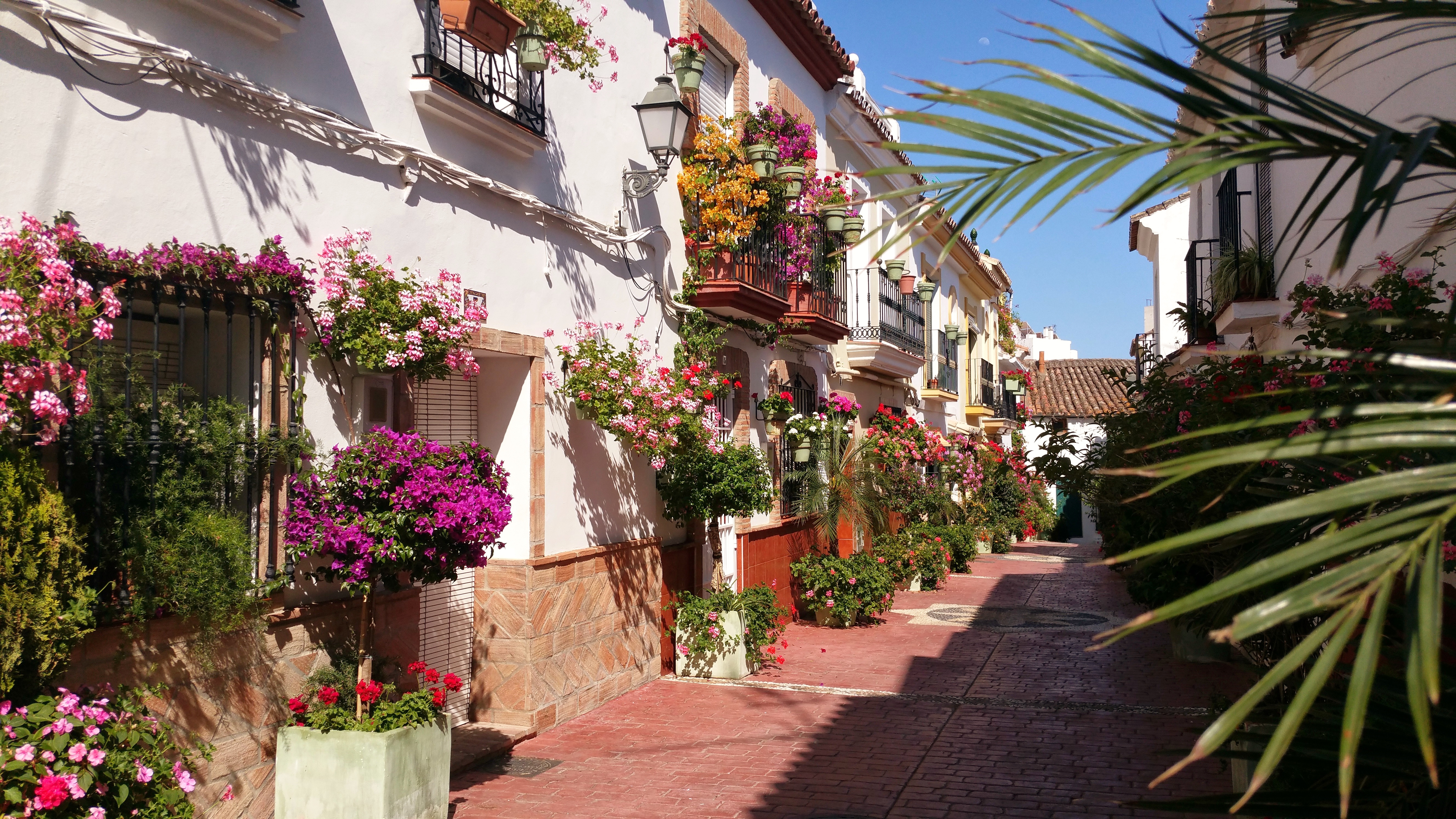 Flowers decorate the streets of Estepona